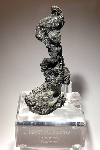 Lead Locality: Långban, Filipstad, Värmland, Sweden (Locality at ) This is a very fine, rare specimen of crystallized native lead. Such specimens are known best from the classic old locality of Langban. It is extremely uncommon to get a specimen with any sense of aesthetics, though. They just usually tend to be lumpy masses of unappealing gray rock, with only a few exceptions - and those usually already in noted museums. This one is about as elegant as you can expect from a native lead, displays nicely, and features crystals to 2 cm that are relatively well-formed. 8 x 3 x 2 cm